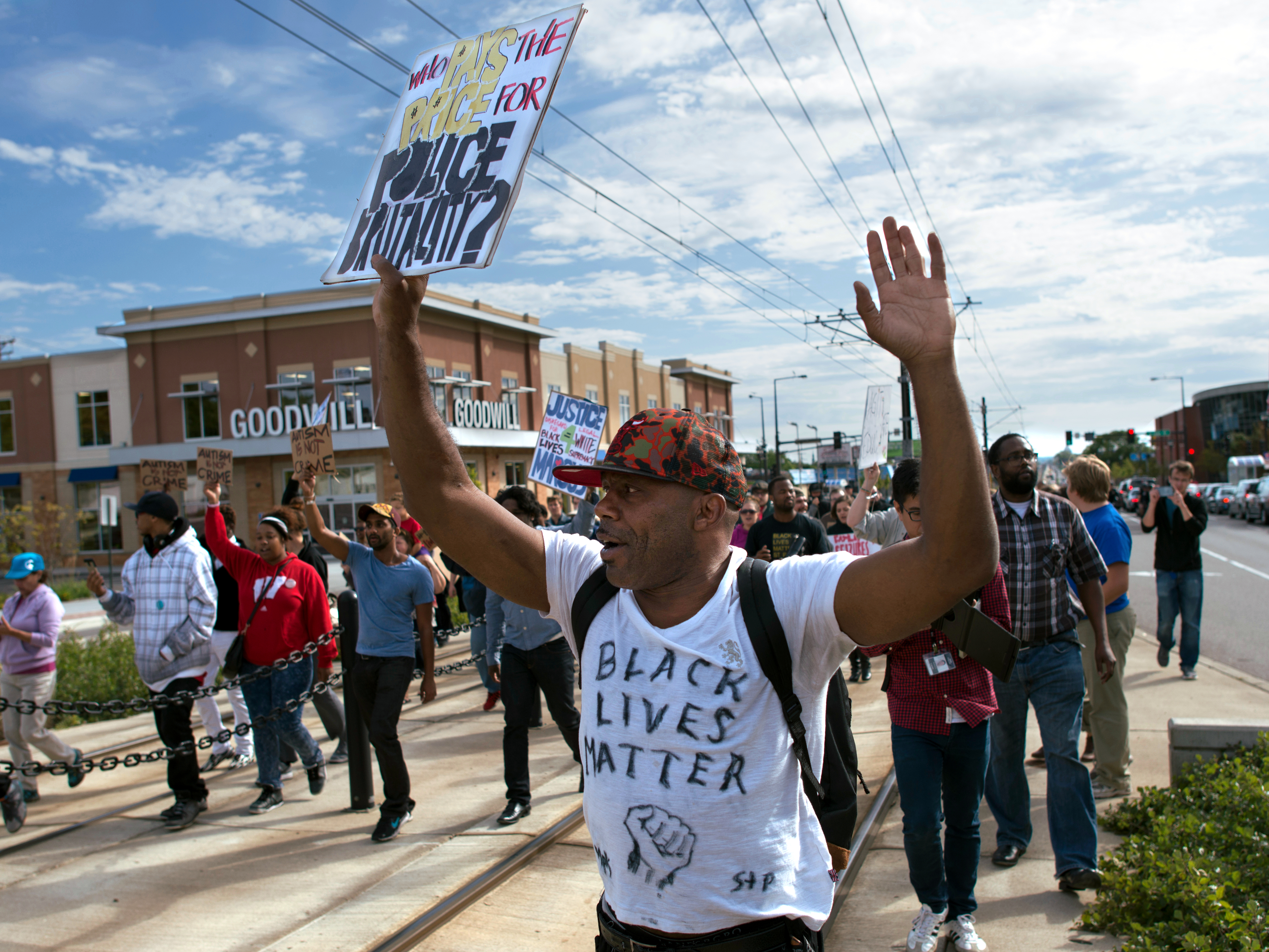 St. Paul, Minnesota September 20, 2015 Around 100 protesters blocked the light rail line in St. Paul to protest the treatment of Marcus Abrams by St. Paul police. Abrams, who is 17 and has Autism, was violently arrested by Metro Transit Police on August 31, 2015. During his arrest he suffered a split lip and multiple seizures. 2015-09-20 This is licensed under a Creative Commons Attribution License. Give attribution to: Fibonacci Blue